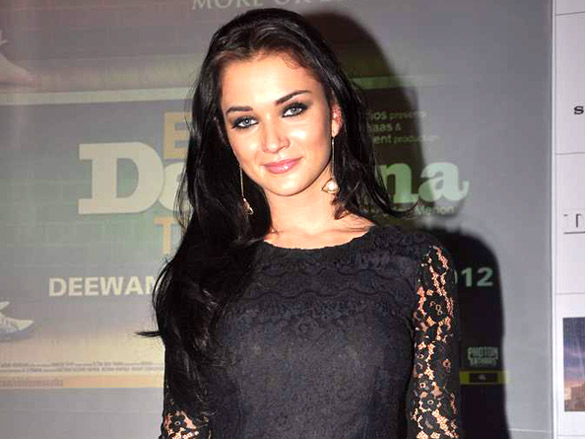 Amy Jackson From The Press meet of Ekk Deewana Tha